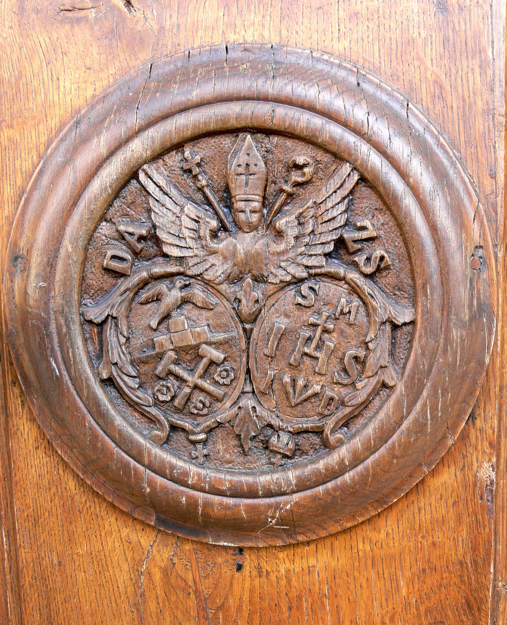 Klaffer am Hochficht ( Upper Austria ). Holzschlag Chapel ( 1877 ) - Coats of arms of Schlägl monastery and abbot Dominik Lebschy ( ? ) at the door.